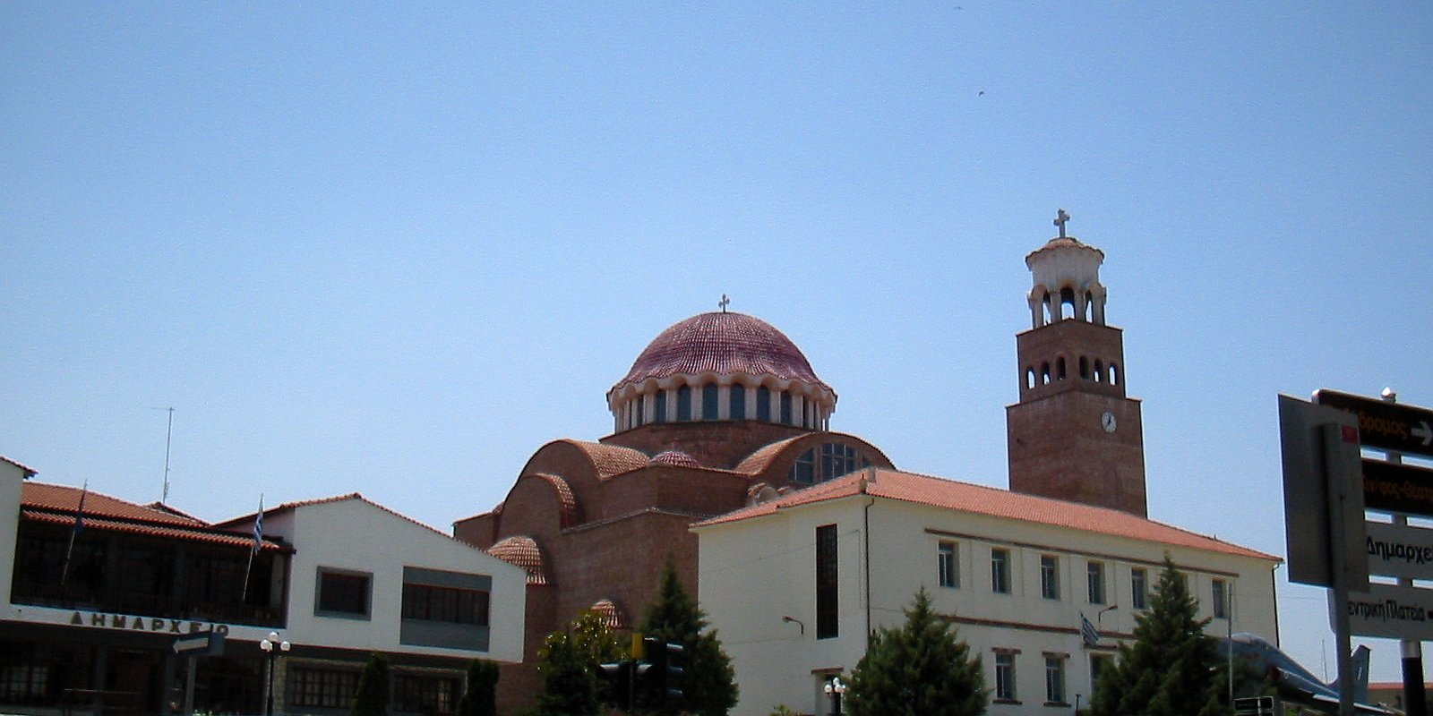 Orthodox church of Panagia Eleftherotria (built between 1992-4), Didymoteicho, Evros, Greece.